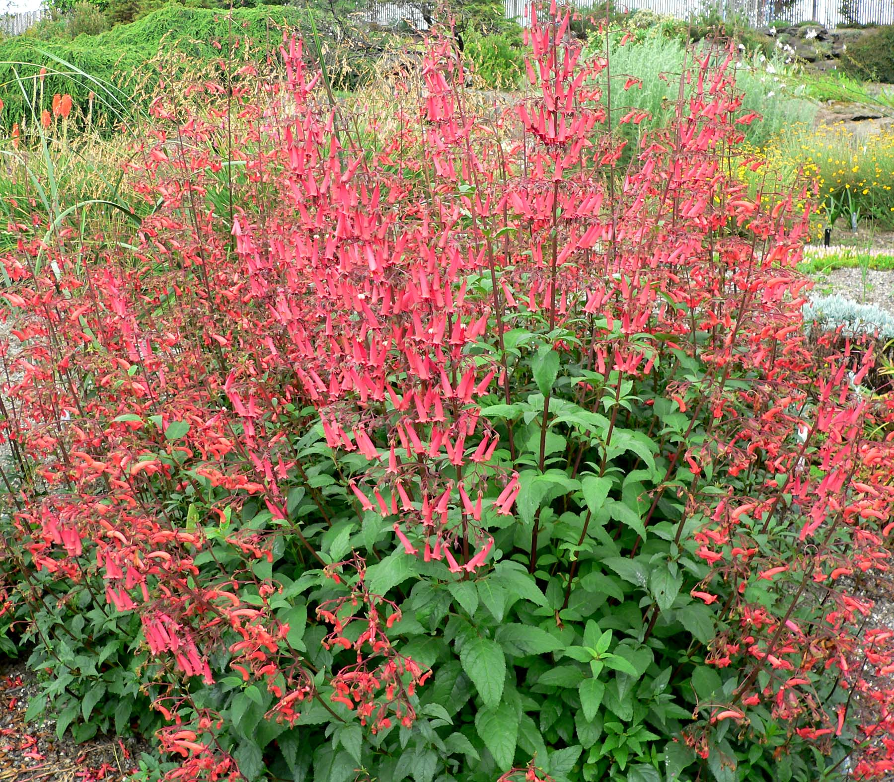 Photo of Phygelius capensis (Cape fuchsia) at the UBC Botanical Garden